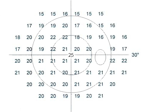 central 30° of a static perimetry